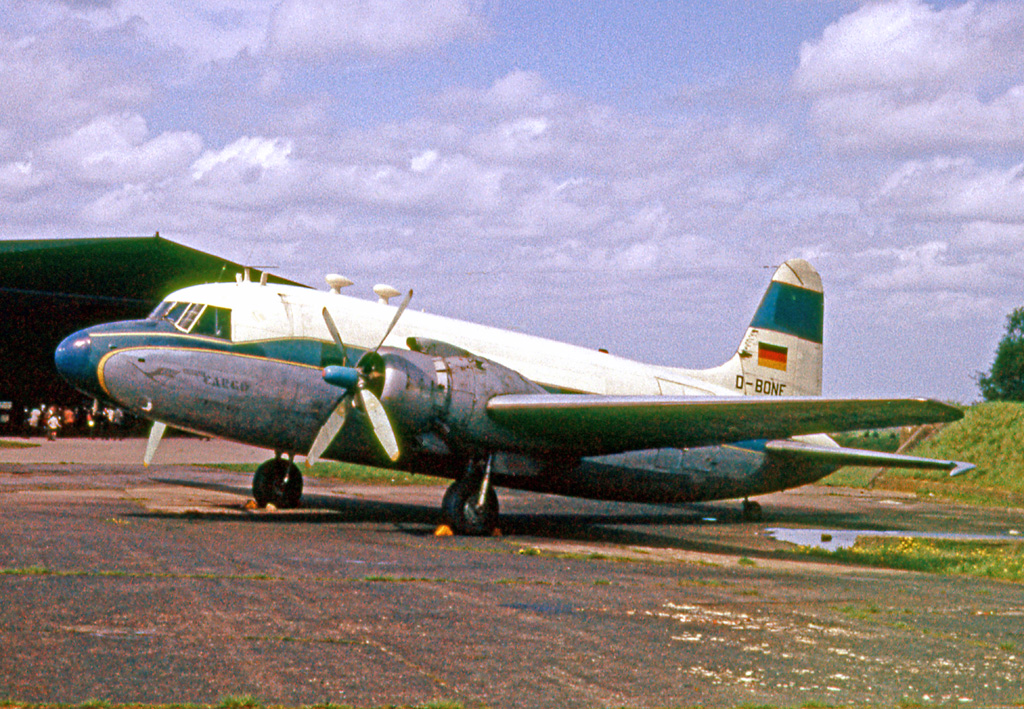 Vickers Viking 610 Mk.I.B, D-BONE of Condor Flugdienst, operating for Lufthansa Cargo. Seen parked at RAF Biggin Hill on May 9th 1964